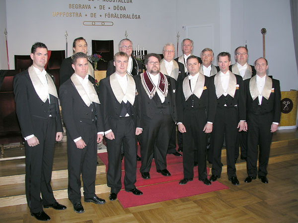 Some members of the Independent Order of Odd Fellows In Germany